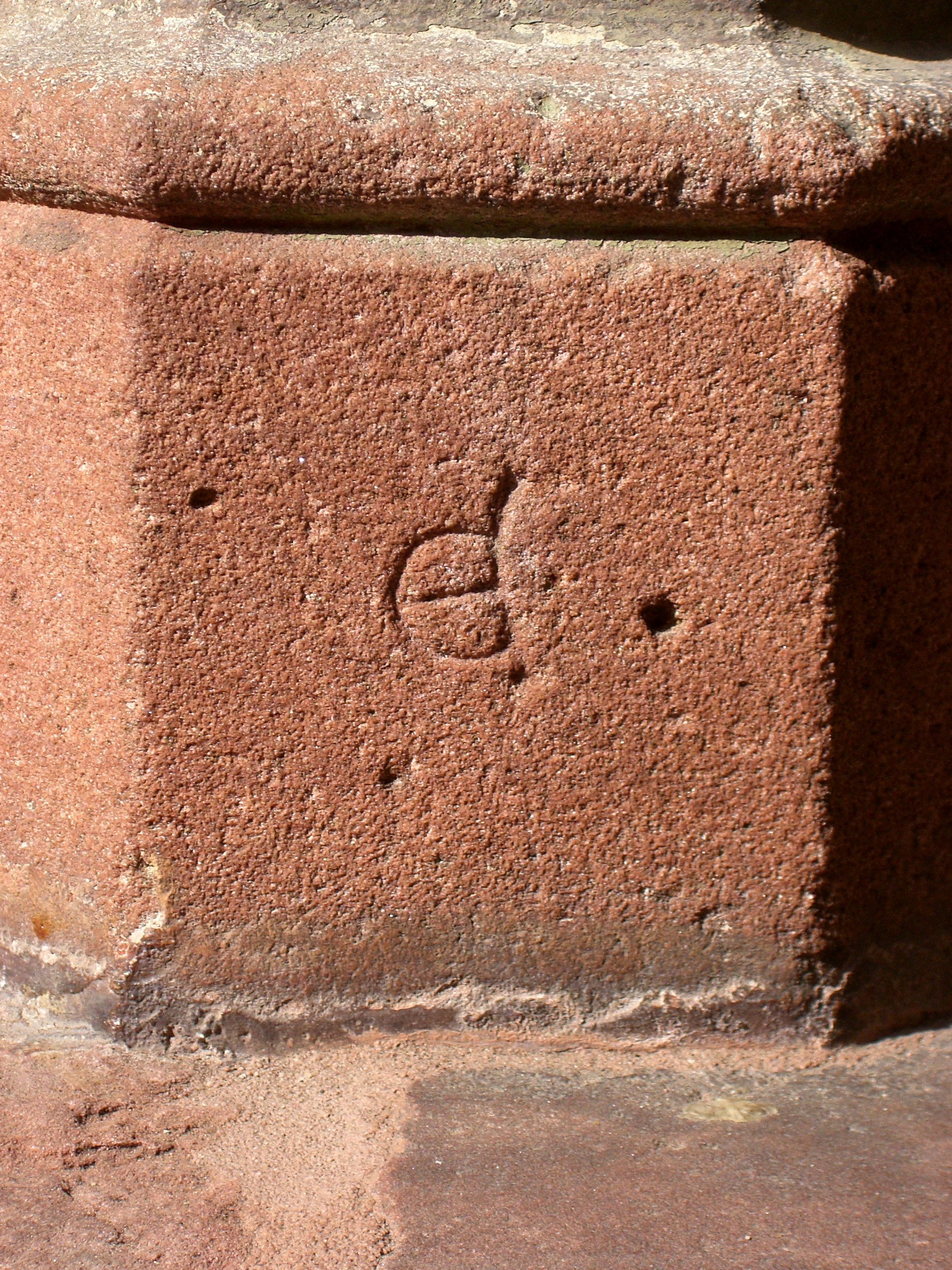 Mark on the outside of the Minster